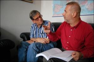 з нобелівським лауреатом. Аарон Чехановер (ліворуч), Сибірний А.А. (праворуч)